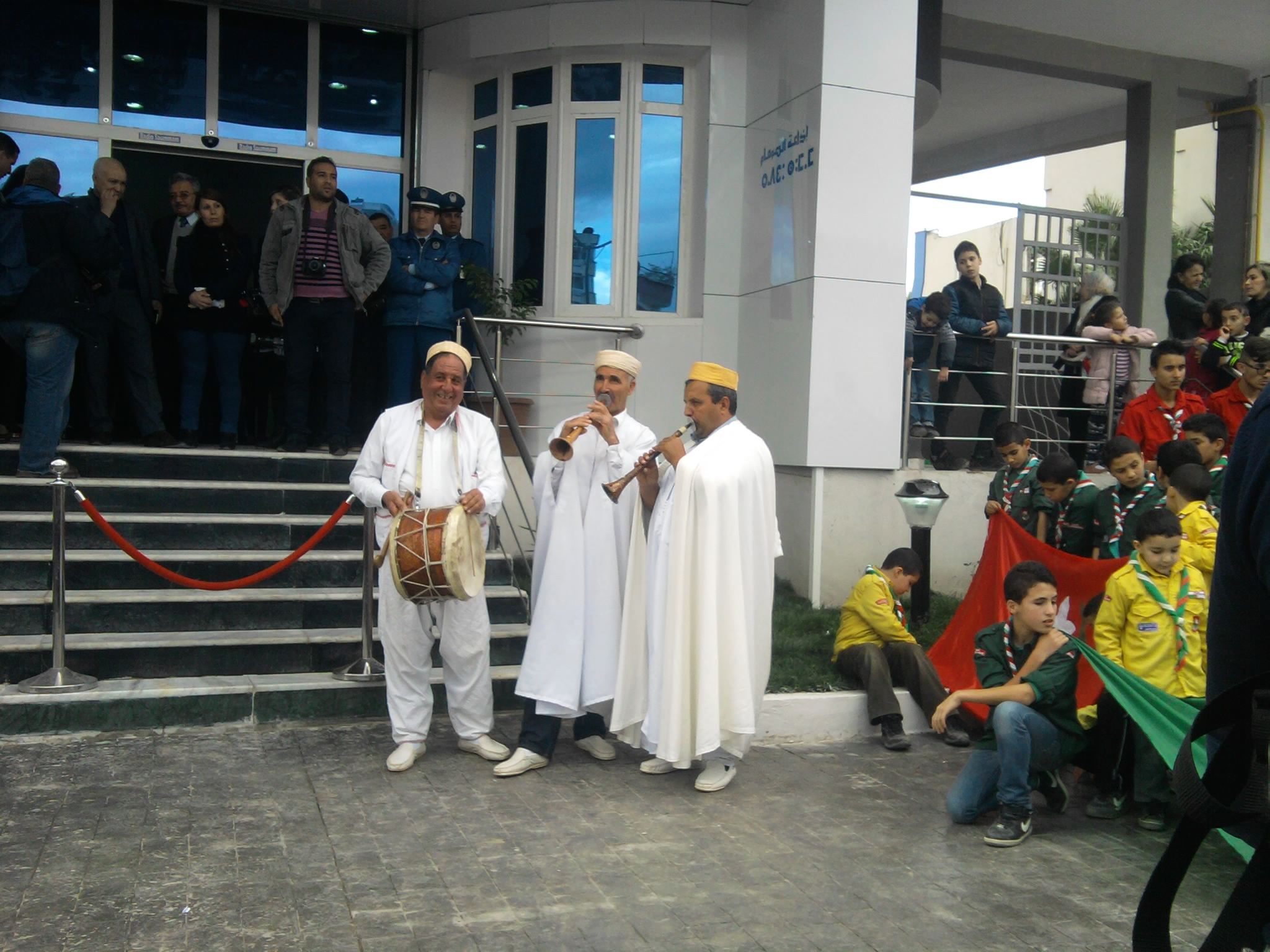 Taqbaylit: iTaballen This is an image from Algeria